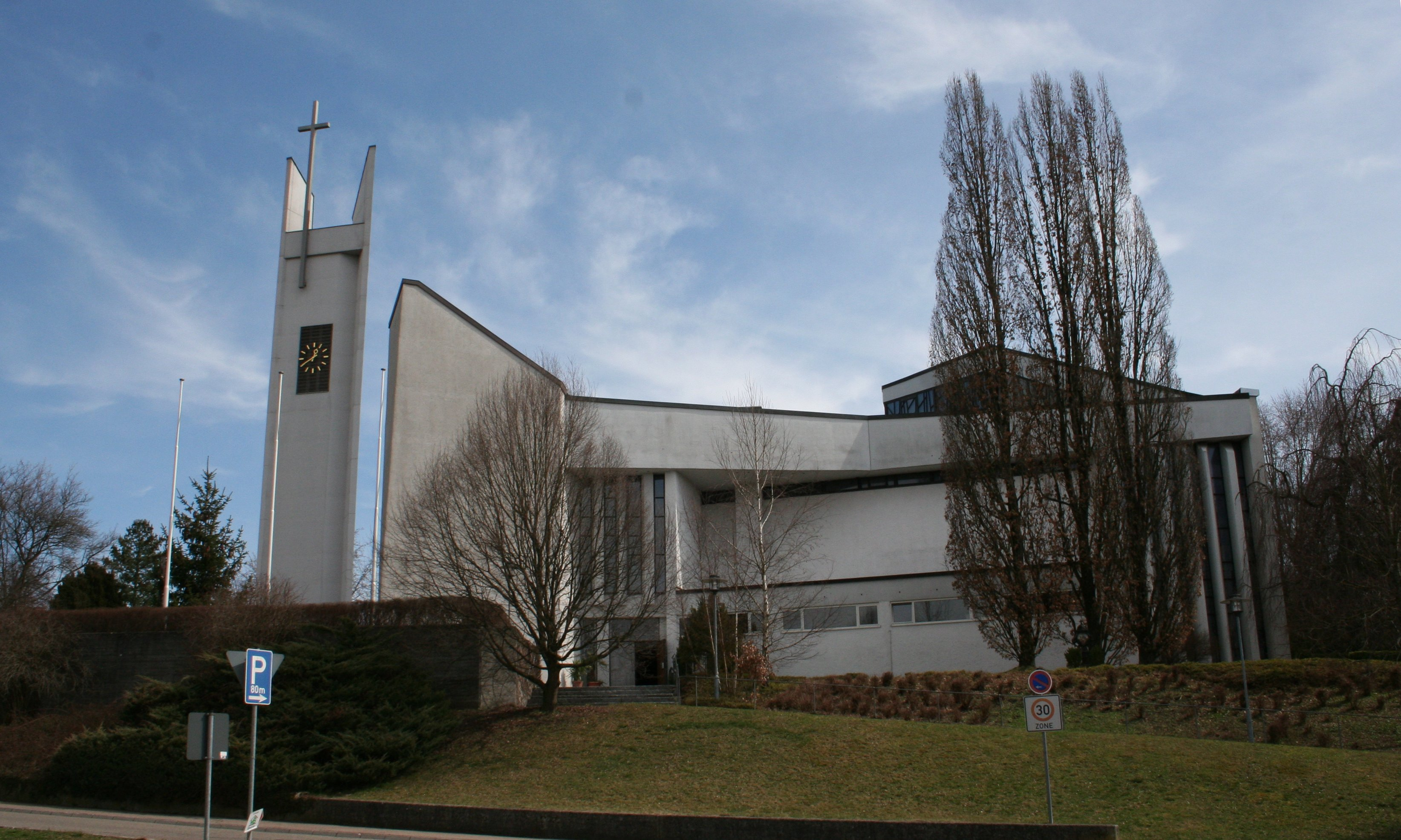 church Maria Hilf Krumbach (Schwaben)